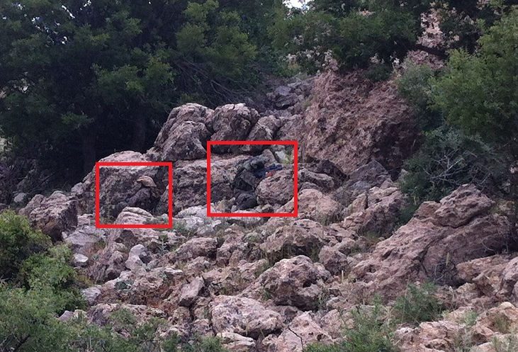 egoz soldiers hiding in the rocks